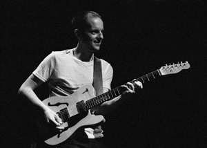 Tomas Sauter Jazz Guitarist Live at Moods, Zurich